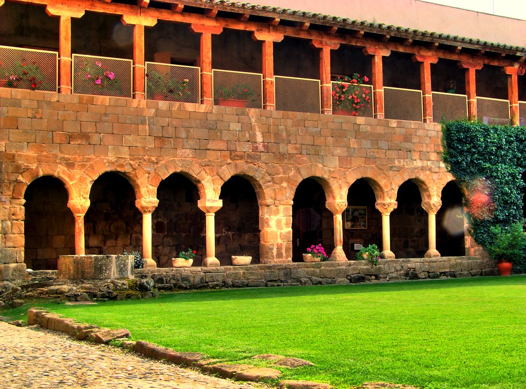 St Mary's Monastery in Gualter (La Baronia de Rialb, Catalonia)